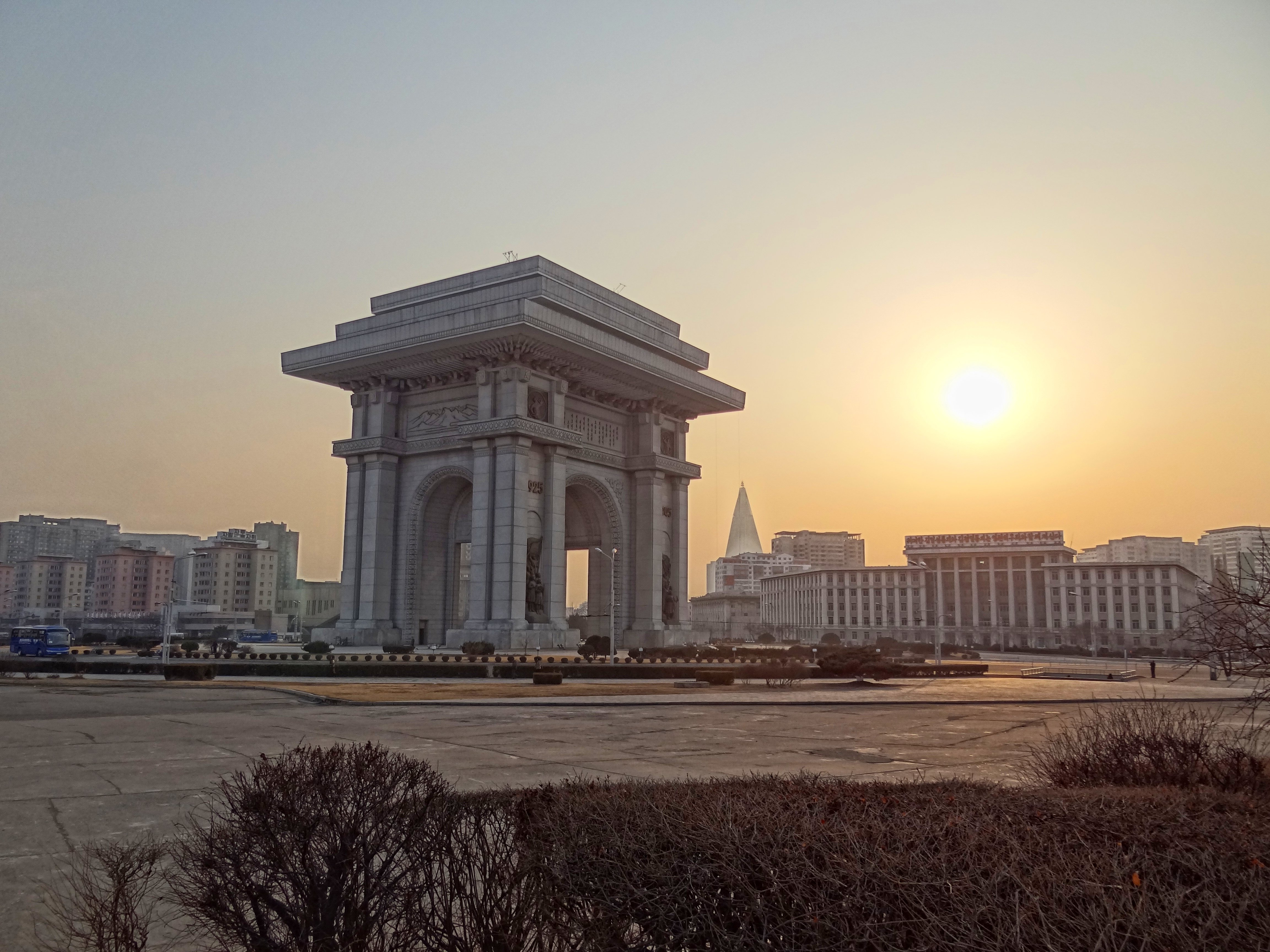 The Arch of Triumph in Pyongyang, photographed from the north-east in at sunset in March 2014. The pyramidal building in the background is the Ryugyong Hotel, the tallest building in the DPRK.